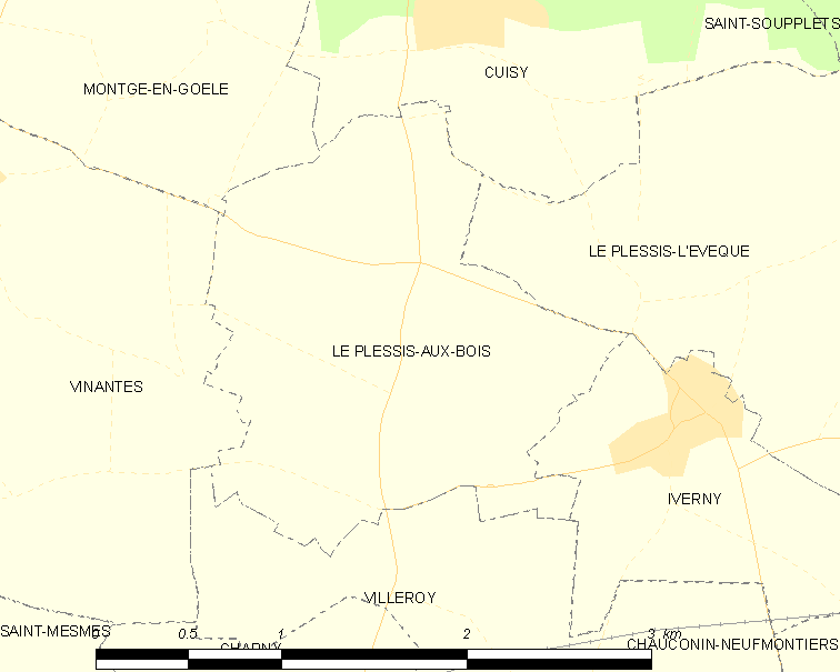 Map of French municipality Le Plessis-aux-Bois